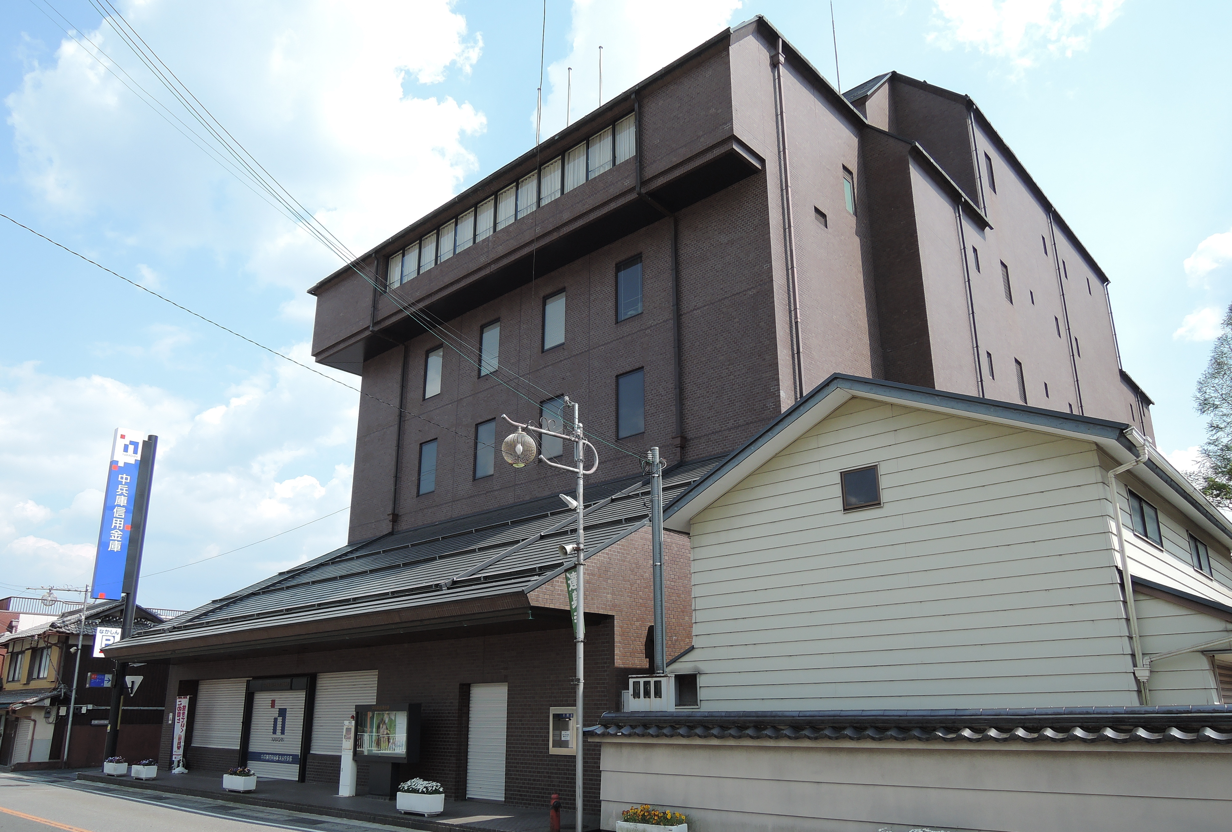 Head office of Nakahyogo Shinkin bank ,Hyogo prefecture,Japan